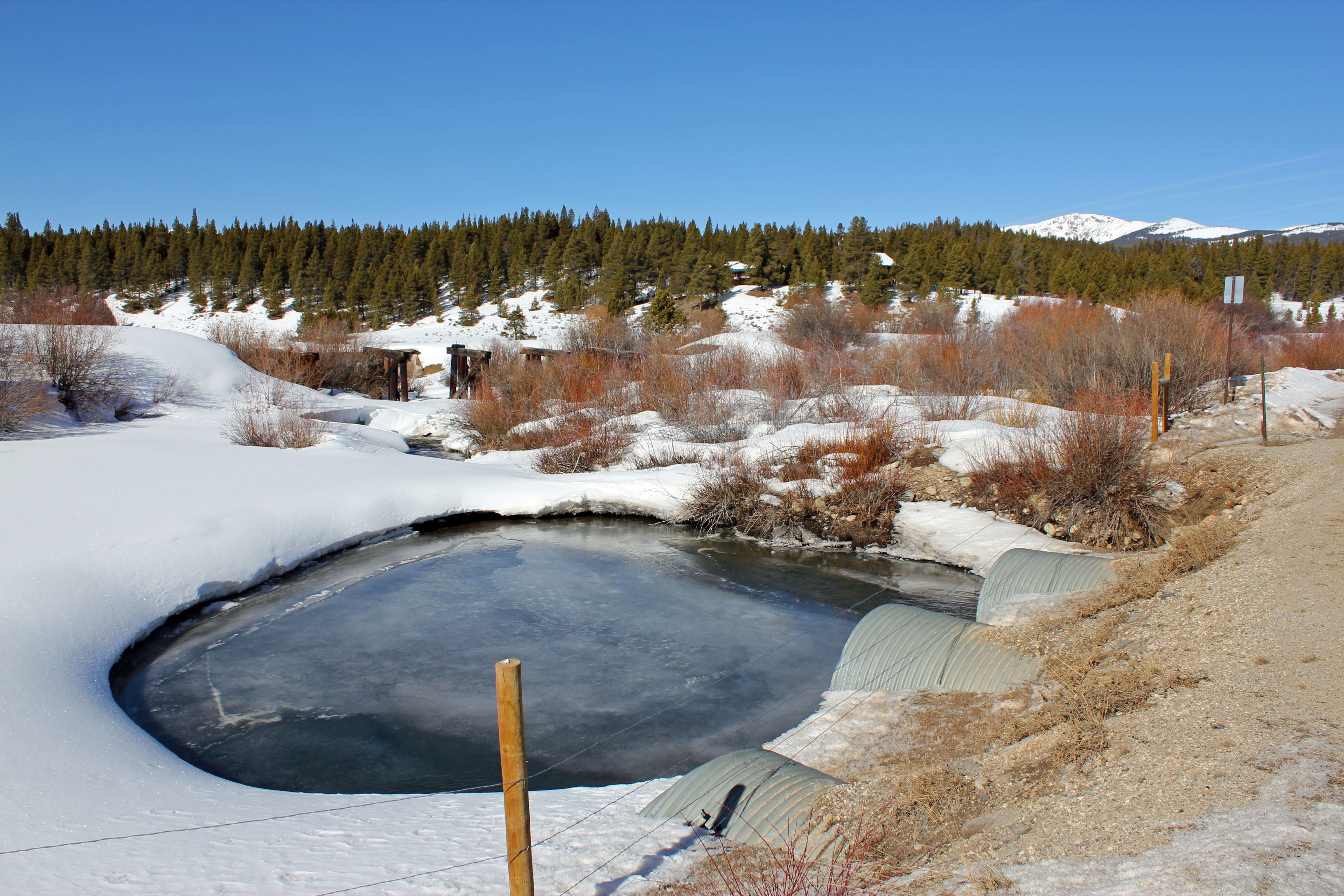 The East Fork Arkansas River, just after it flows under Lake County (Colorado) Road 9, northwest of Leadville, Colorado. The river flows under the road in a series of four culverts. Soon after passing under the road, the river merges with Tennessee Creek to form the Arkansas River.